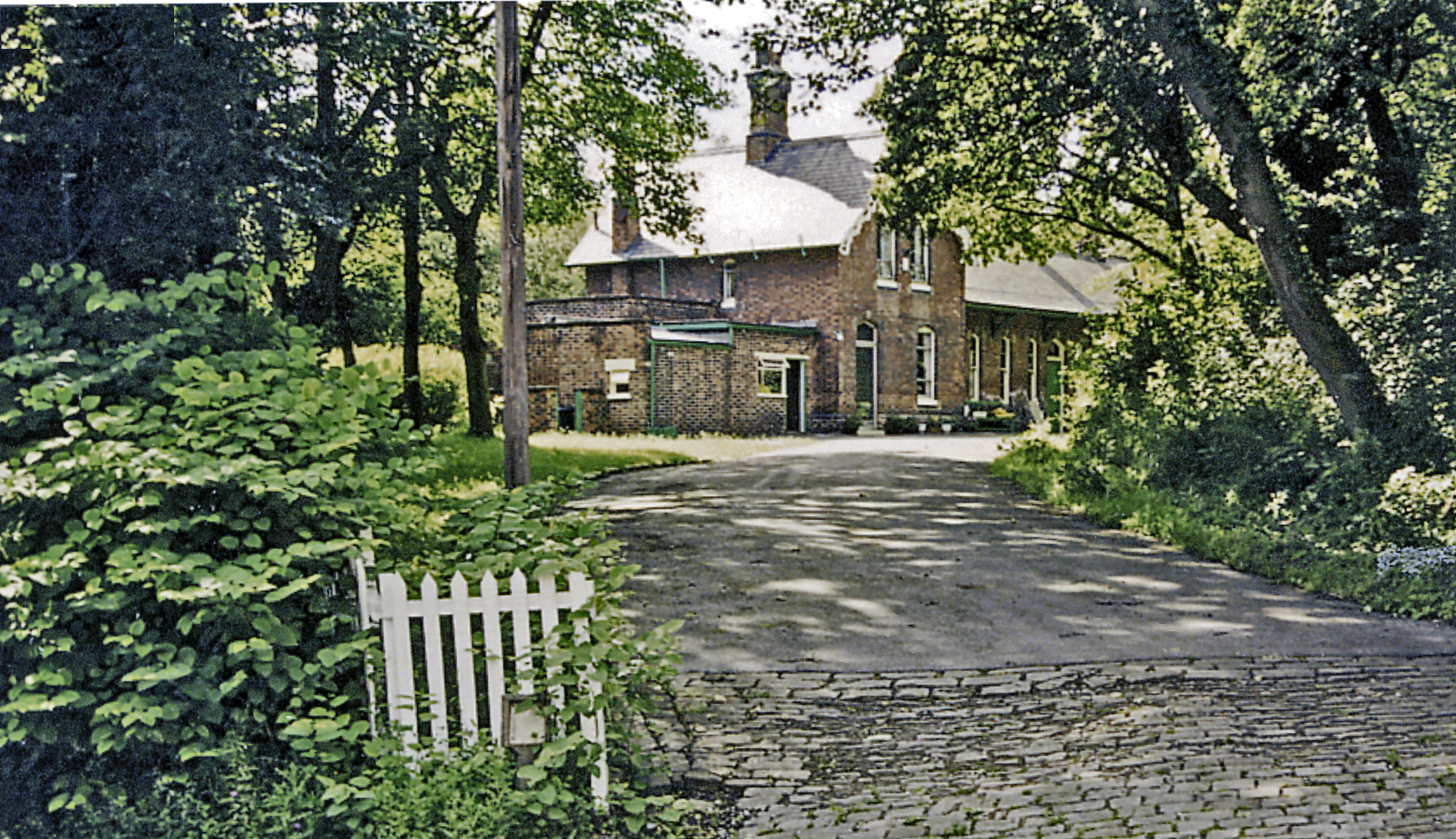 Former Chapeltown & Thorncliffe (later Central) station. View NW, towards Barnsley: ex-GC Sheffield Victoria - Barnsley line. The station (named 'Central' from 18/6/51) was closed when the passenger service ceased on 7/12/53, but was open for goods until 1/4/55 and the line remained until 3/66. Clearly, by 1998 it was a flourishing private house. The whole area of South Yorkshire was honeycombed with railways as long as the coal mines flourished.